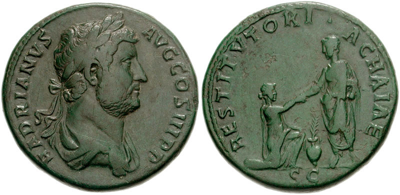 Hadrian. AD 117-138. Æ Sestertius (32mm, 25.46 g, 12h). Rome mint. Struck circa AD 134-138. Laureate and draped bust right RESTITVTORI ACHAIAE, Hadrian standing left, holding roll, raising a kneeling Achaea; amphora containing palm between. RIC II 938 var. (also cuirassed); Banti 627.